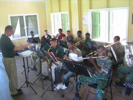 13th Army Band assists GDF recruiting mission